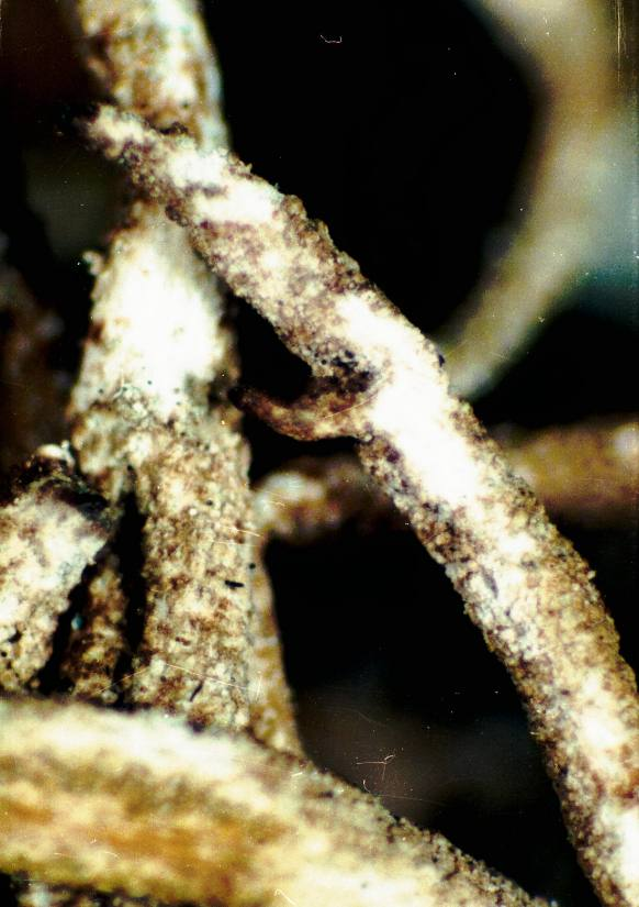 Cladonia decorticata (Flörke) Sprengel, 1827 (photograph of a herbarium specimen taken through a dissecting microscope (x40) showing tip of podetium) Growing on soil in Jack Pine woods near Crumley Creek off US-68, Cheboygan County, Michigan, USA; collected and identified by Richard E. Riefner (No. 81-455, 14 Jul 1981); specimen is now in the Lichen Herbarium of the New York Botanical Garden.